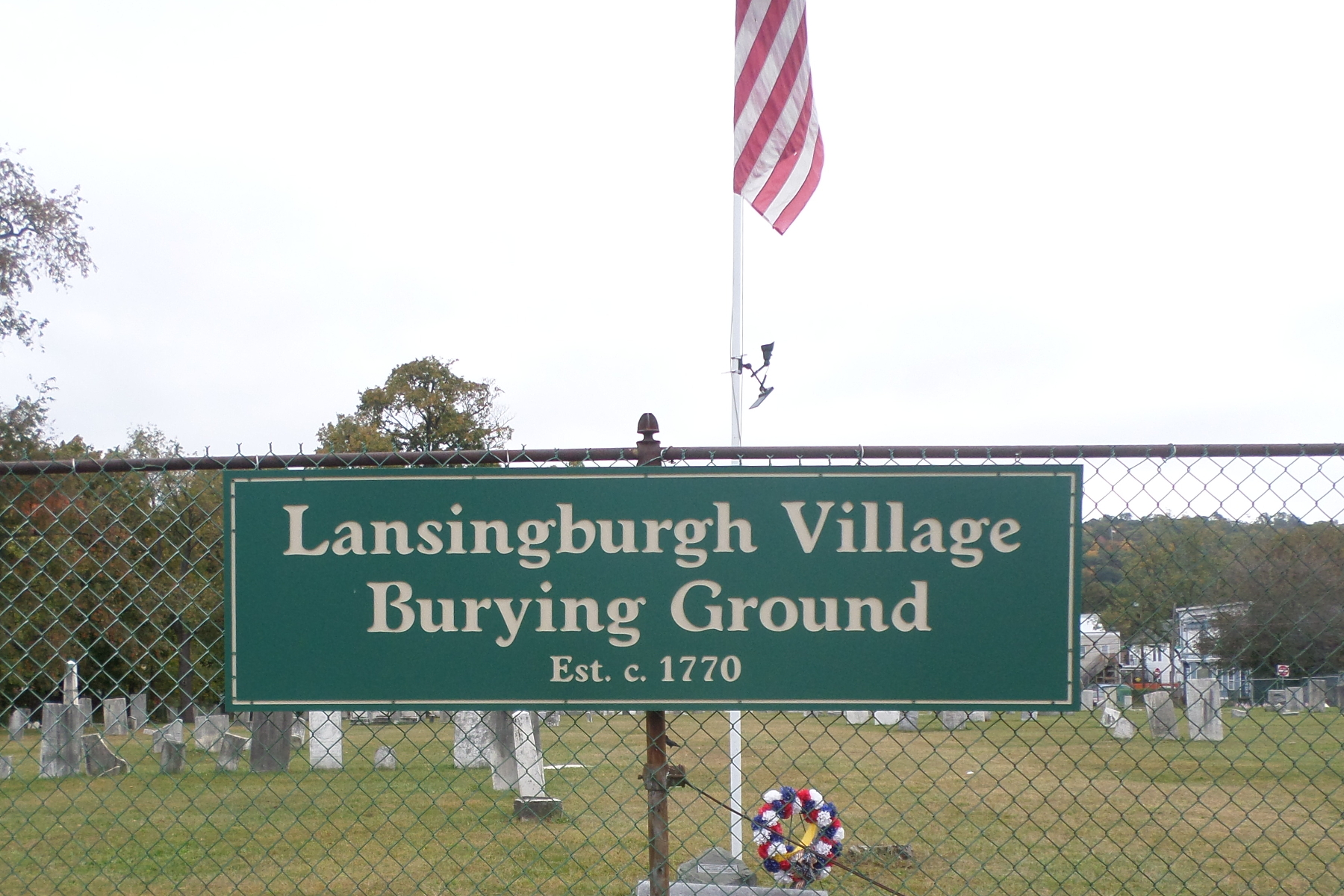 Lansignburgh, New York burial Ground established around 1770. 3rd Ave at 107th St.